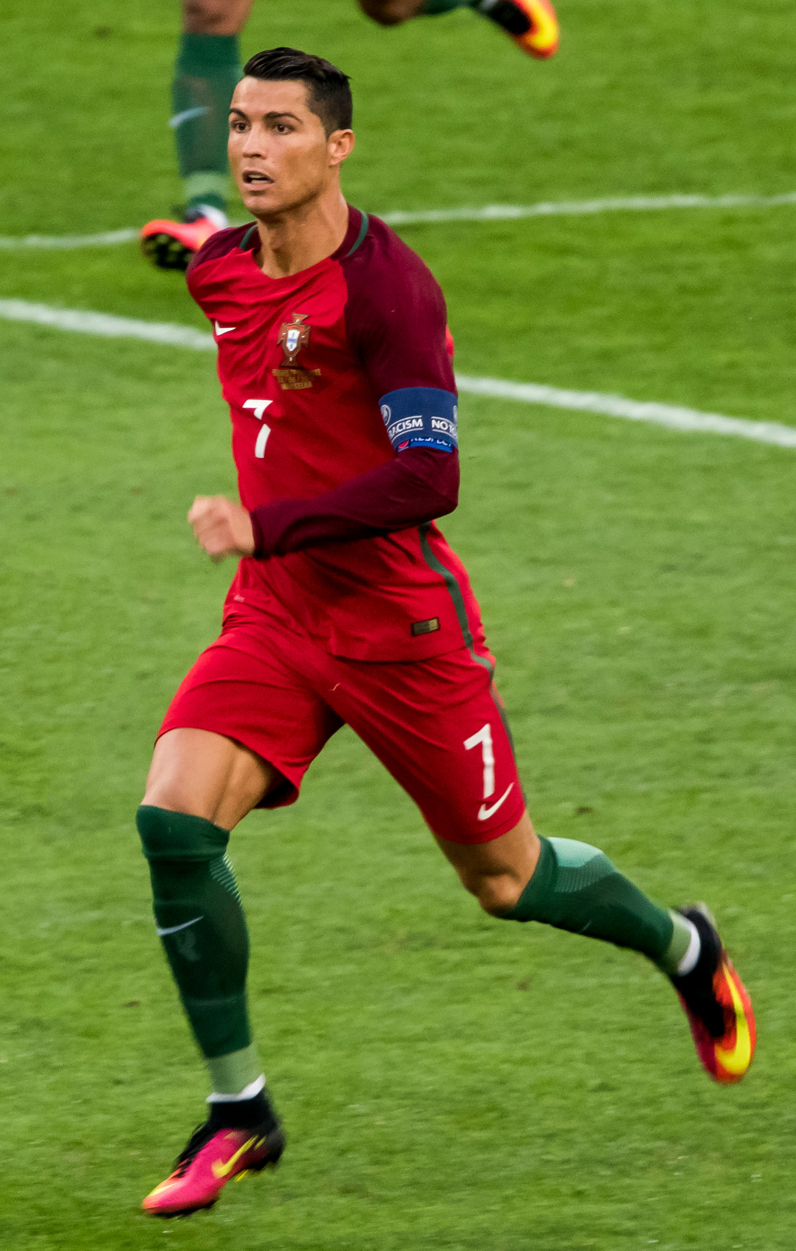 Łukasz Piszczek playing for Poland against Portugal at the UEFA Euro 2016 with Cristiano Ronaldo behind him